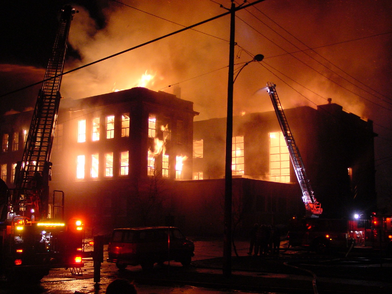 A burning school in Aberdeen, United States